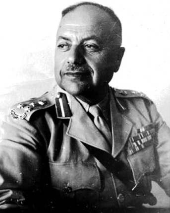 Jordanian Army Chief of Staff Radi Annab before his retirement from the armed forces in May 1956